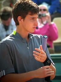 Ernests Gulbis of Latvia, taken during his first round match at the 2007 Roland Garros against Tim Henman